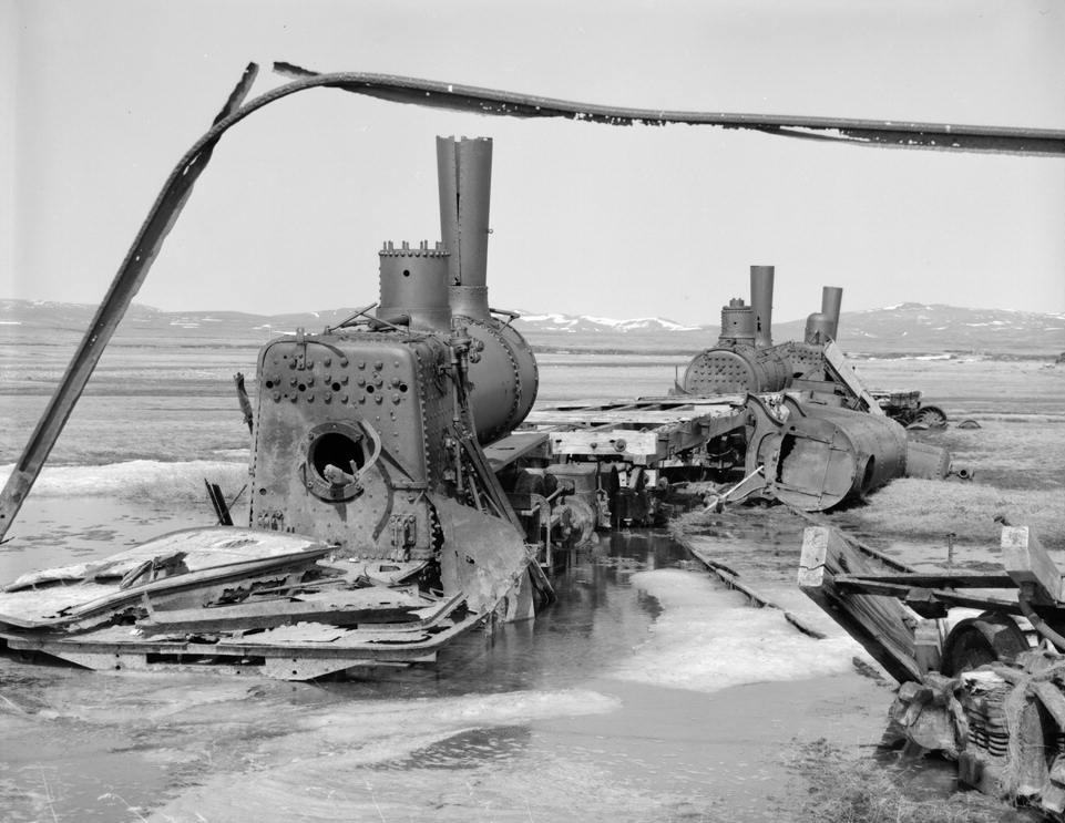 Three abandoned locomotives from the Council City and Solomon River Railroad, located in the Nome Census Area of the U.S. state of Alaska. Built in 1903, the railroad was added to the National Register of Historic Places on 2 March 2001.